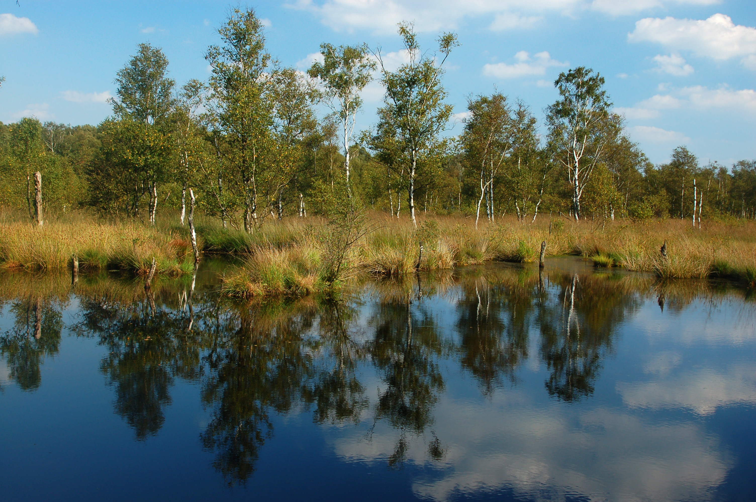 Lütt-Witt Moor in Henstedt-Ulzburg, Germany.